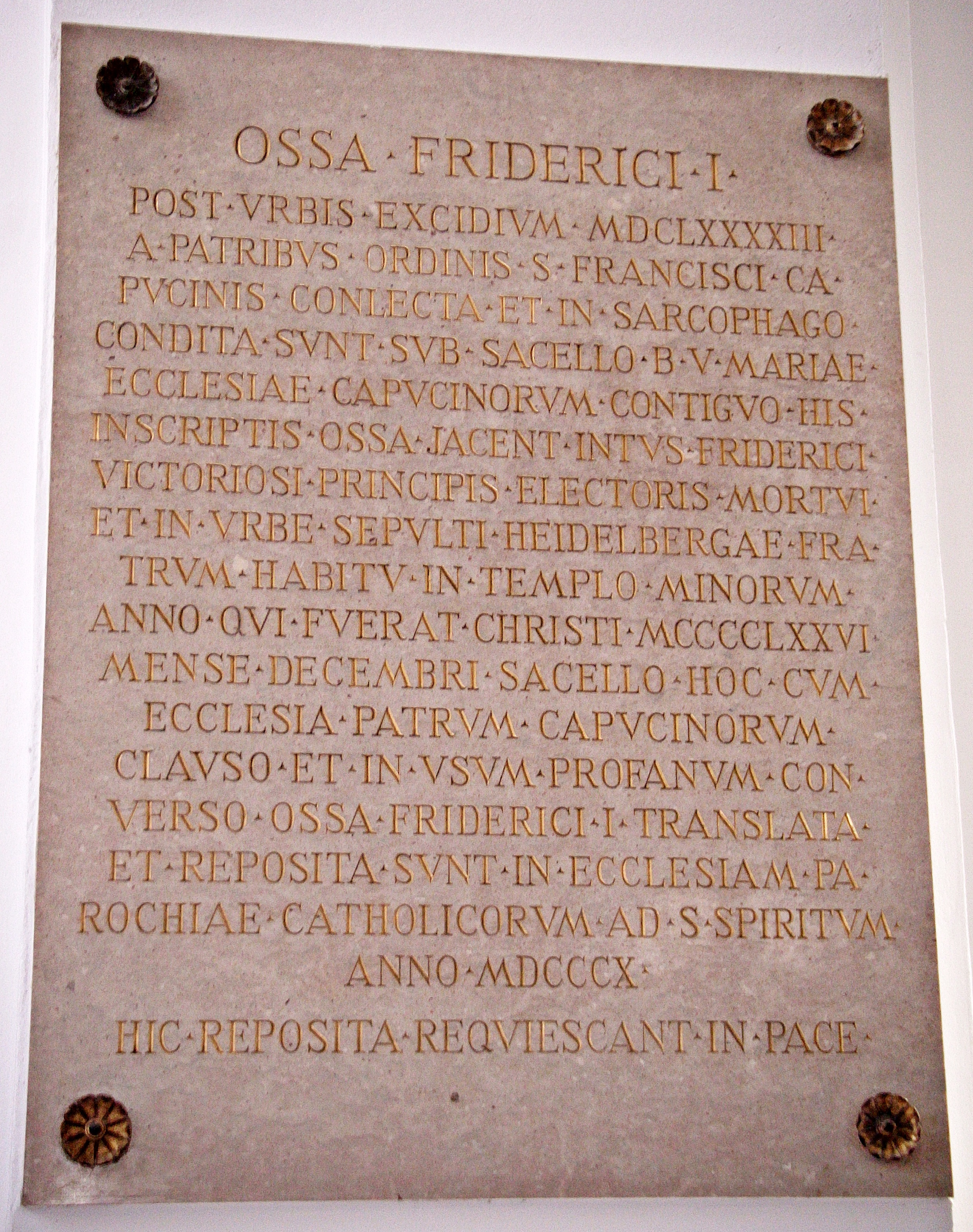 Epitaph Kurfürst Friedrich I. (Pfalz), Jesuitenkirche Heidelberg